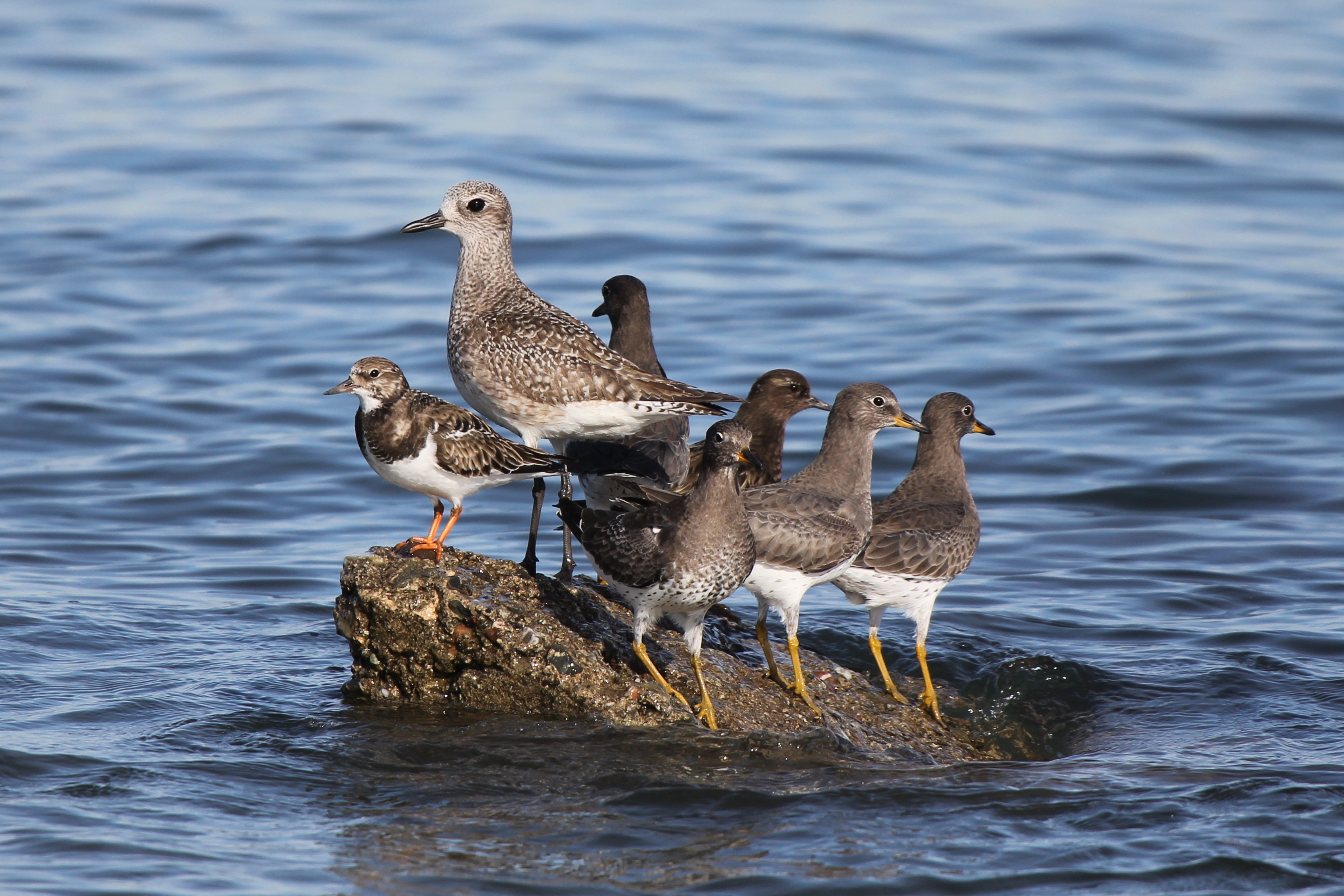 Coyote Point Harbor, San Mateo, California December 2011